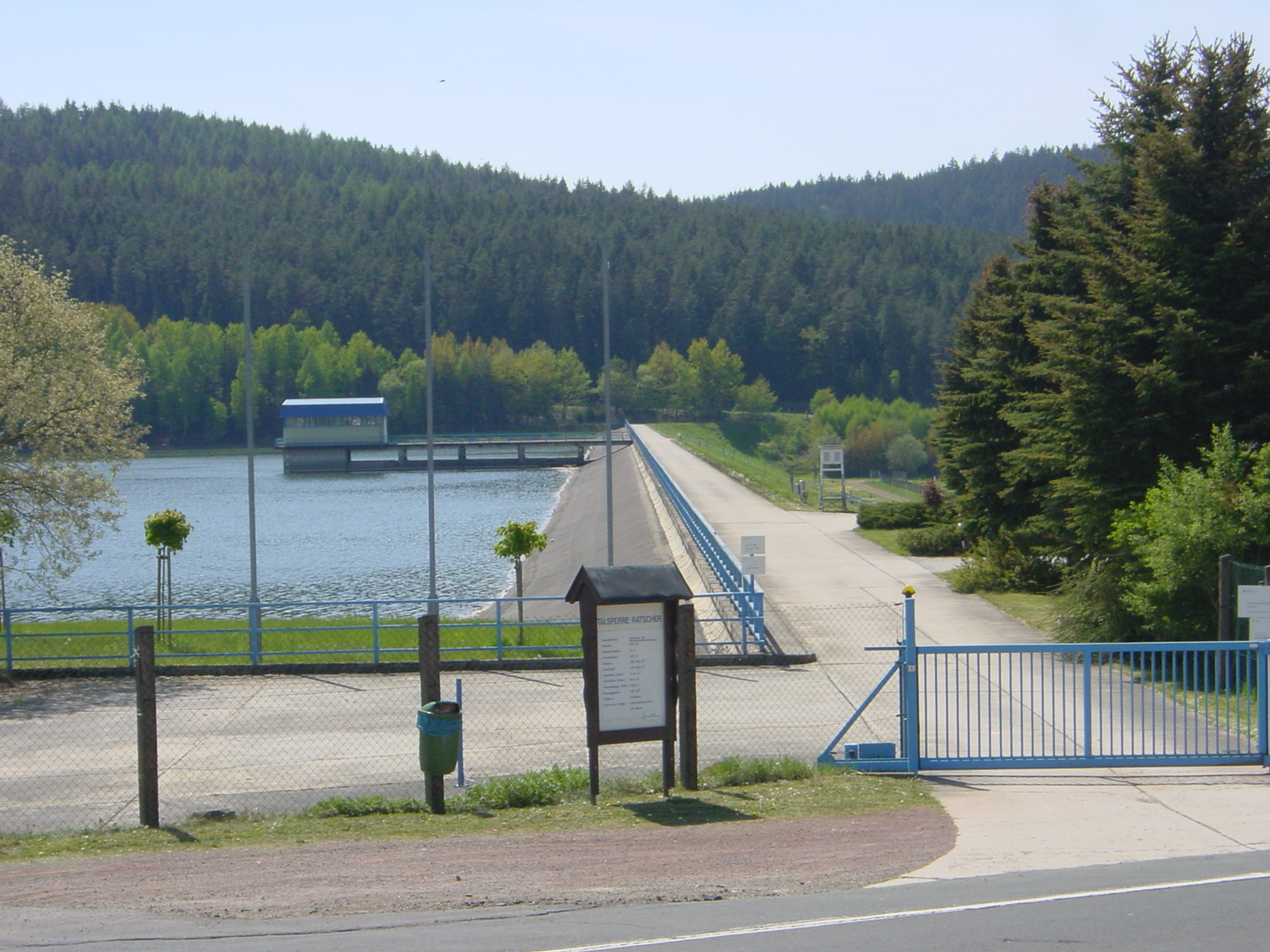 Ratscher dam in Thuringia, Germany